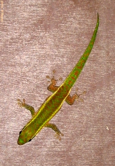 Phelsuma borbonica, Reunion Island Day Gecko - picture taken at Grand Étang